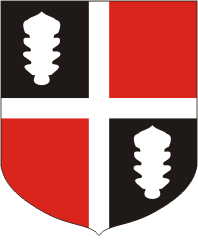 Coat of arms of Rae Commune.